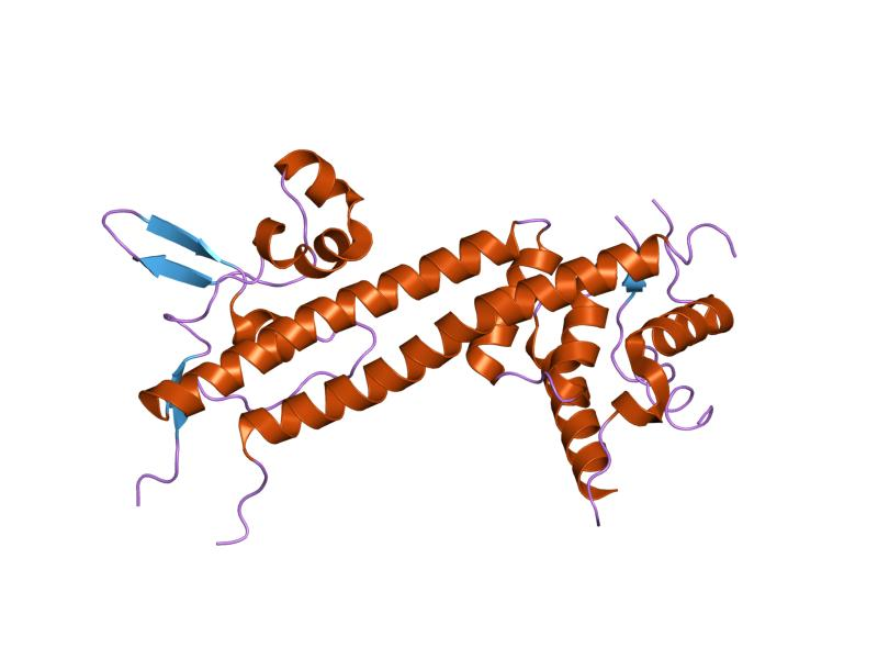 Cartoon representation of the molecular structure of protein registered with 1r6f code.